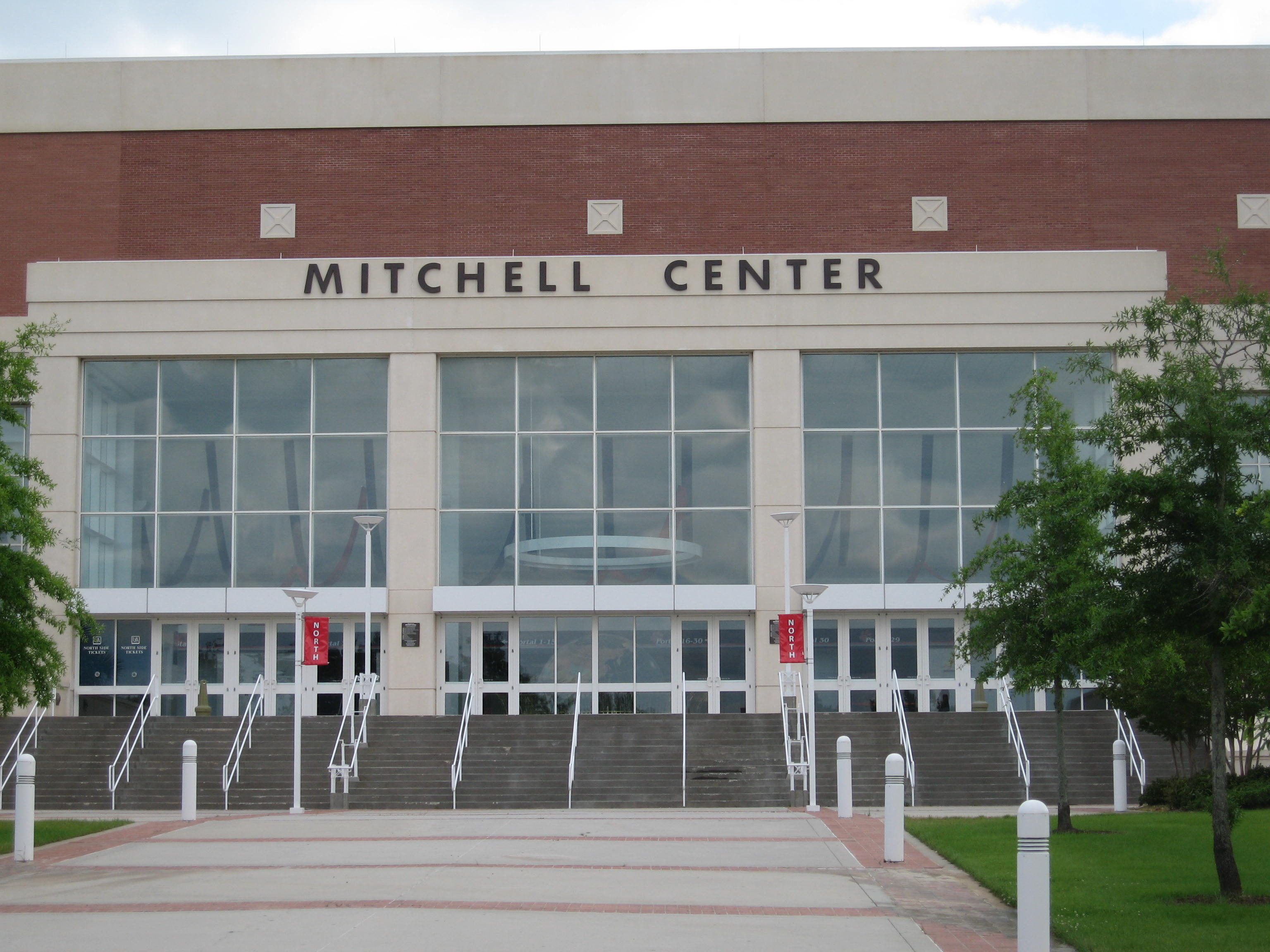 Mitchell Center North Entrance - 2007-04-18